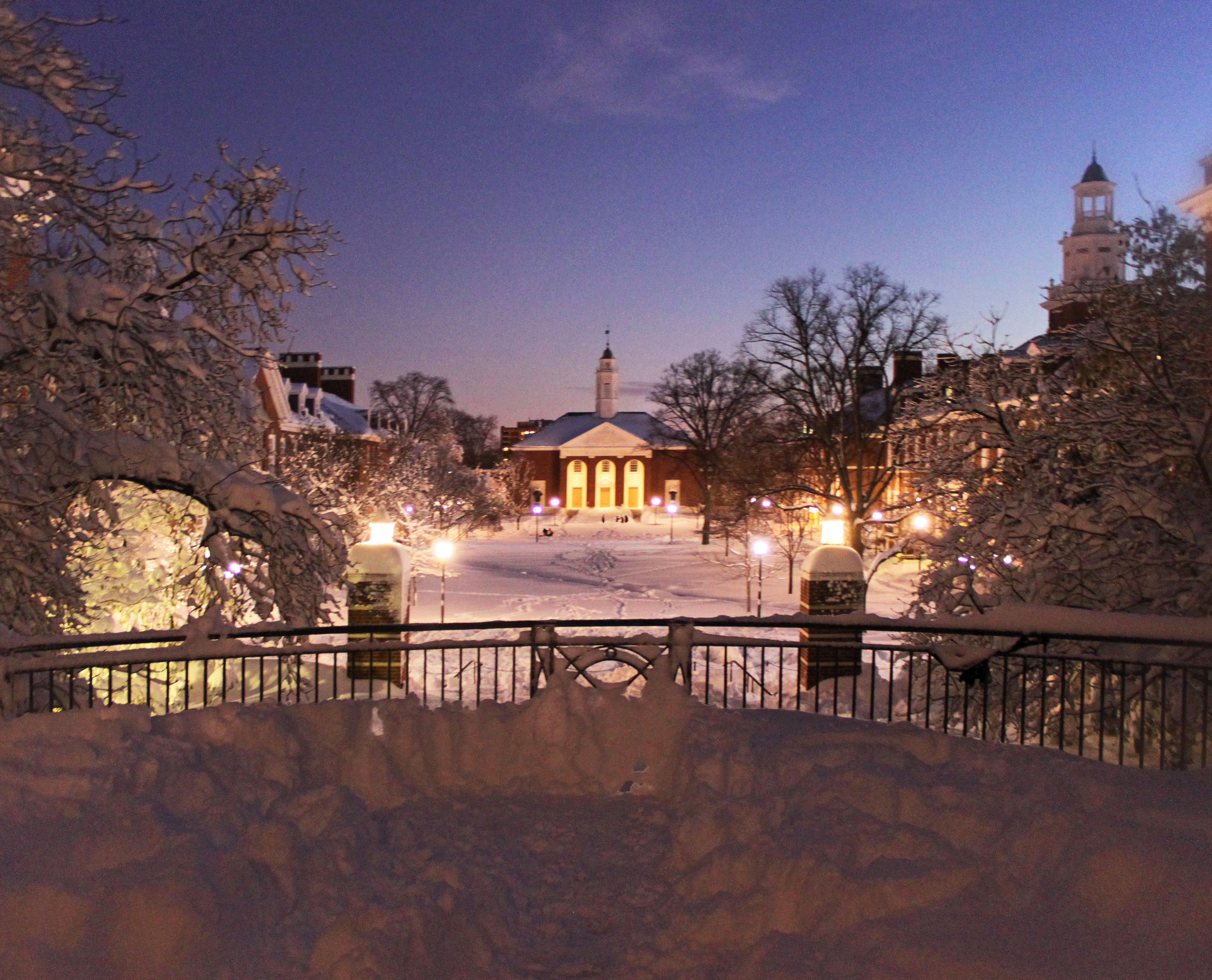 Wyman Quadrangle, JHU